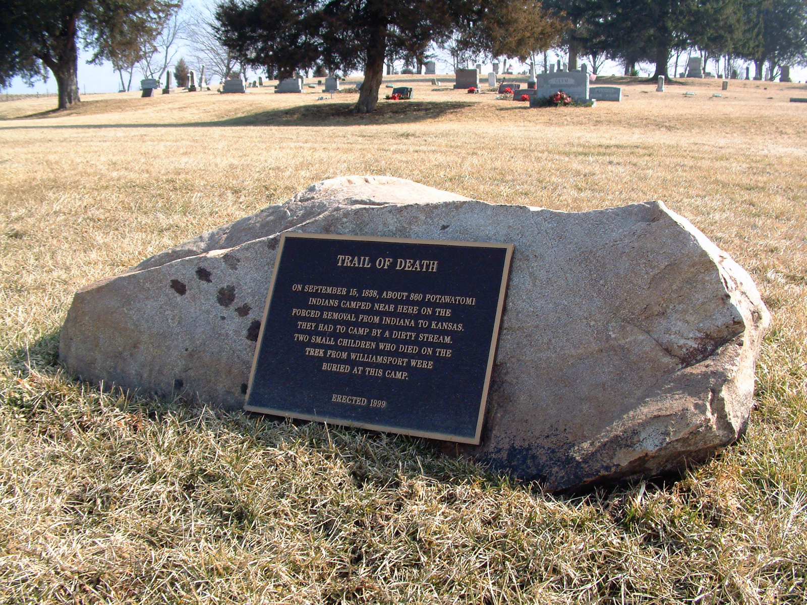 The "Trail of Death" marker at Gopher Hill Cemetery in Warren County, Indiana, describing an episode during the forced removal of the Potawatomi tribe. It reads: Trail of Death On September 15, 1838, about 860 Potawatomi Indians camped near here on the forced removal from Indiana to Kansas. They had to camp by a dirty stream. Two small children who died on the trek from Williamsport were buried at the camp. Erected 1999